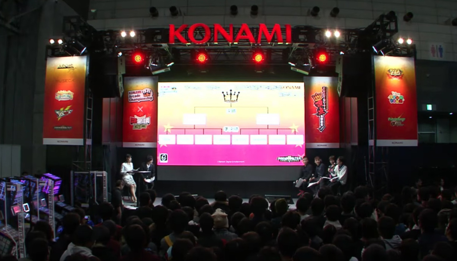 The konami arcade championship the 5th in a festival.